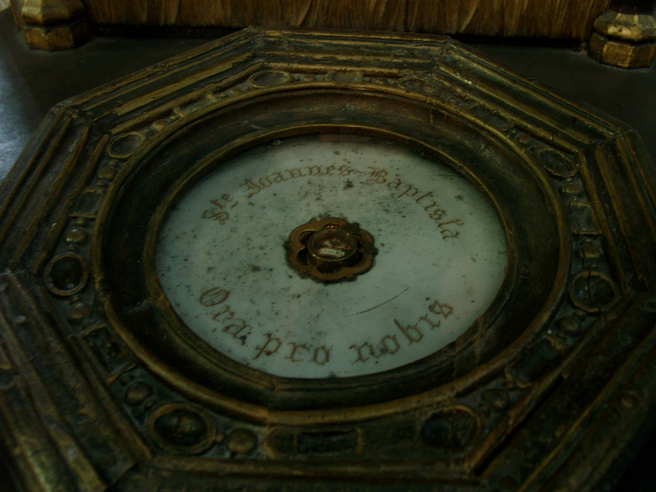 Relic of Saint John - Cathedral of Amiens